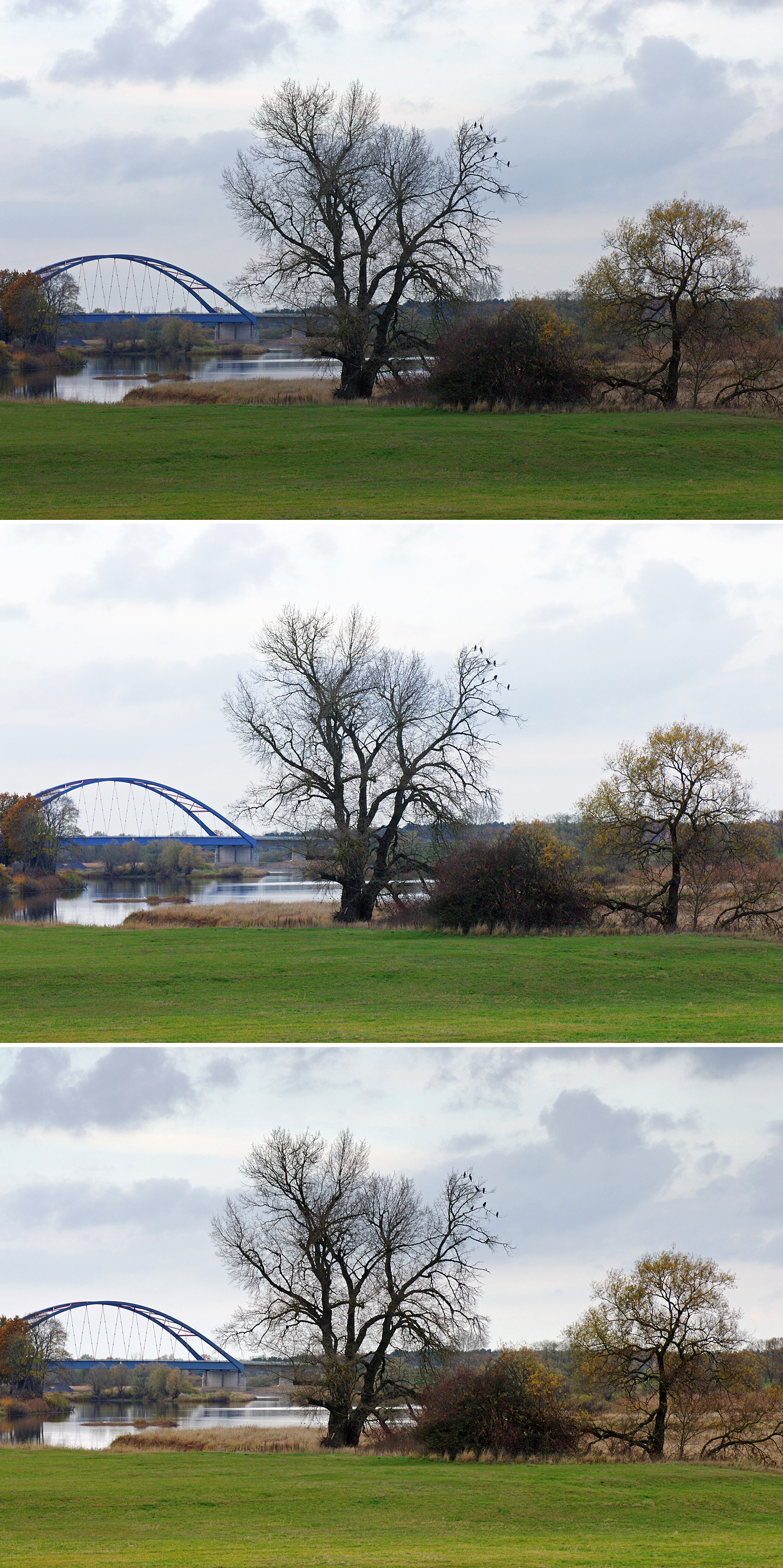 Demonstration of effects of a graduated neutral density filter. Top: Picture without filter, exposure optimized for the bright sky. The rest of the image is too dark, though. Middle: Picture without filter, exposure optimized for the landscape/foreground. The sky is overexposed. Bottom: Picture with GND filter (Cokin P 121M, = ND4, effect: two f-stops). Both, sky and landscape, are well exposed.